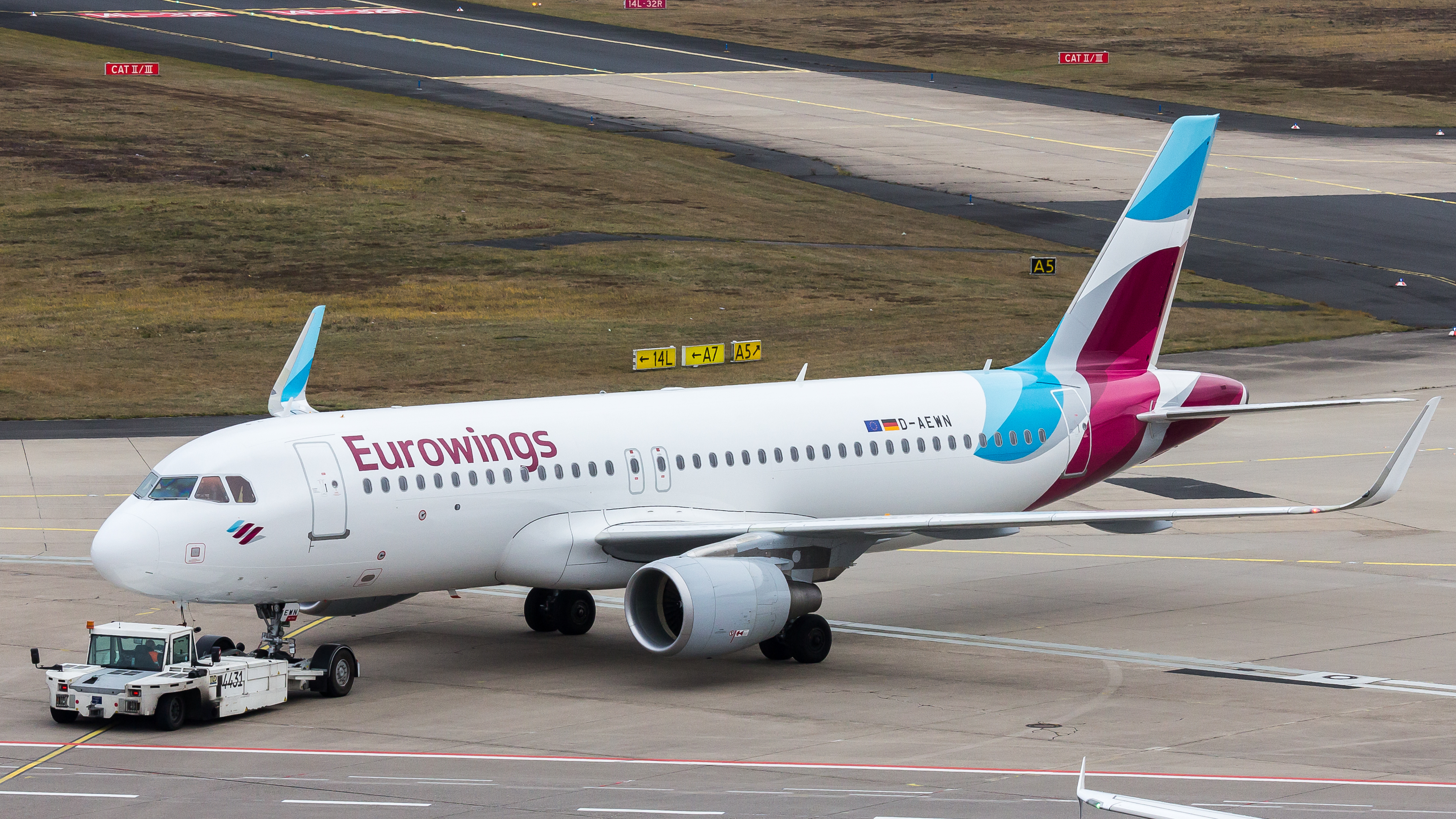 Eurowings - Airbus A320 - D-AEWN - Cologne Bonn Airport